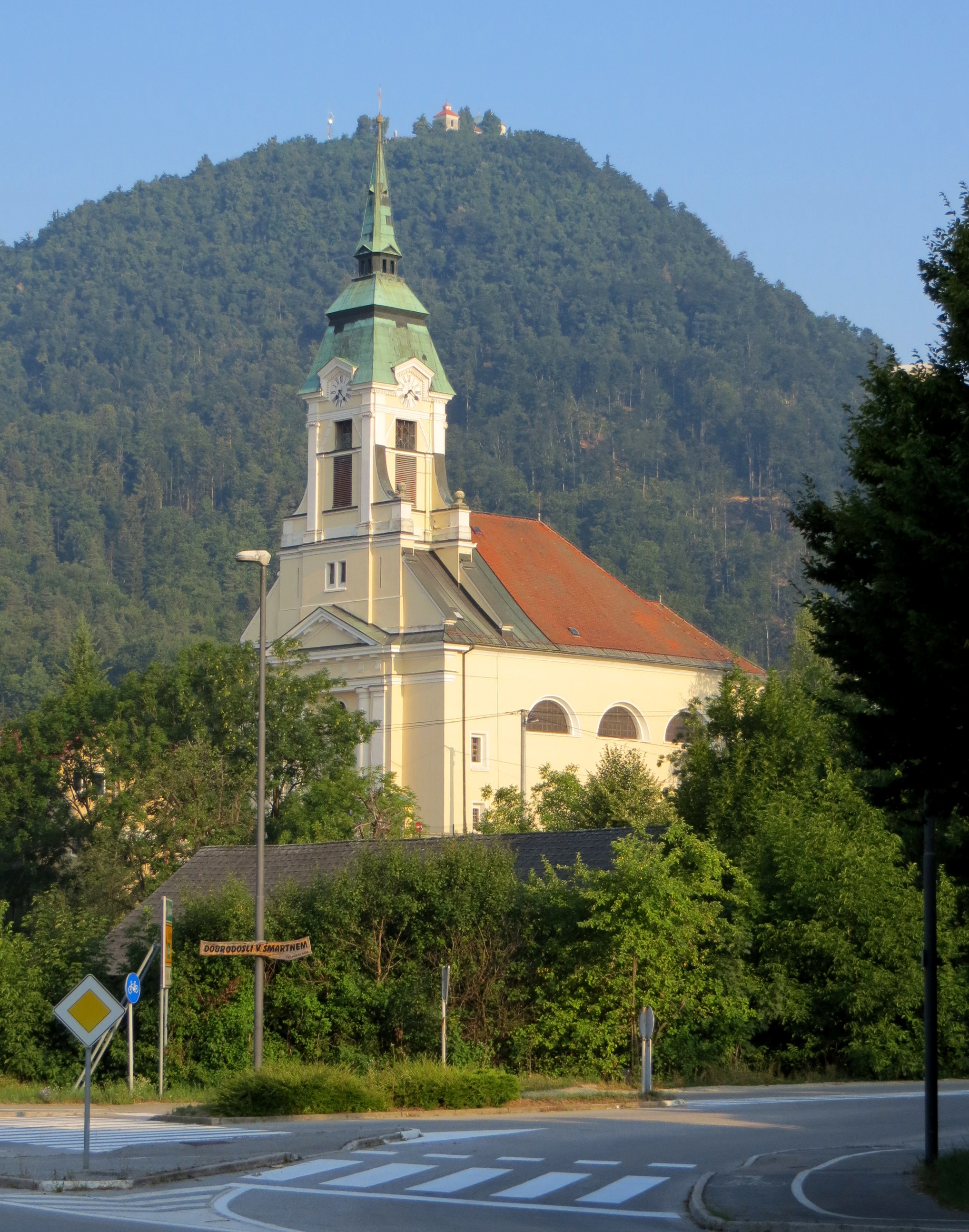 Saint Martin's Church in Šmartno pod Šmarno Goro, Ljubljana, Slovenia